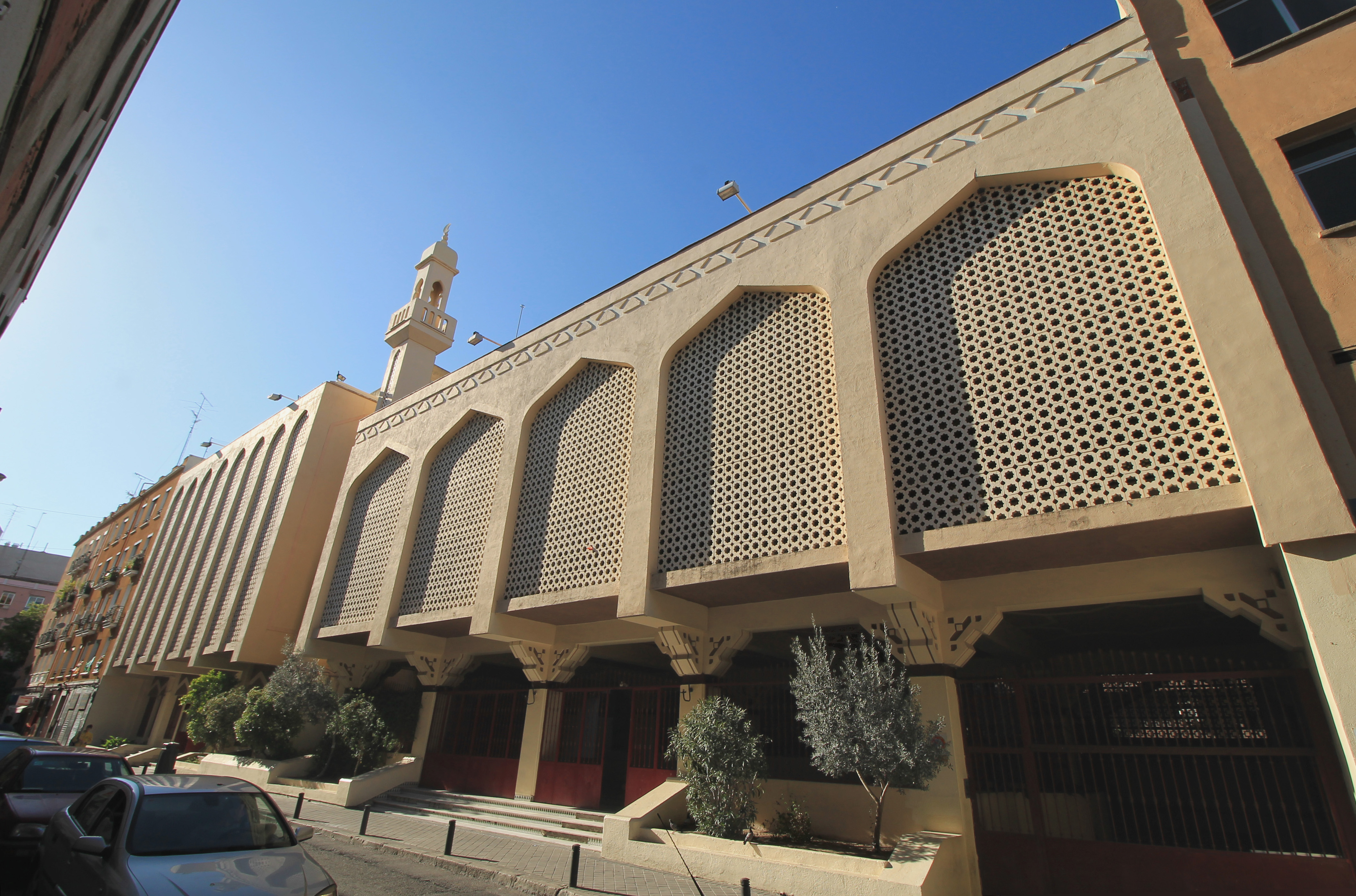 Façade of Madrid Central Mosque (Spain).